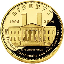 photograph of the 2006 San Francisco Old Mint Commemorative $5 Proof Coin